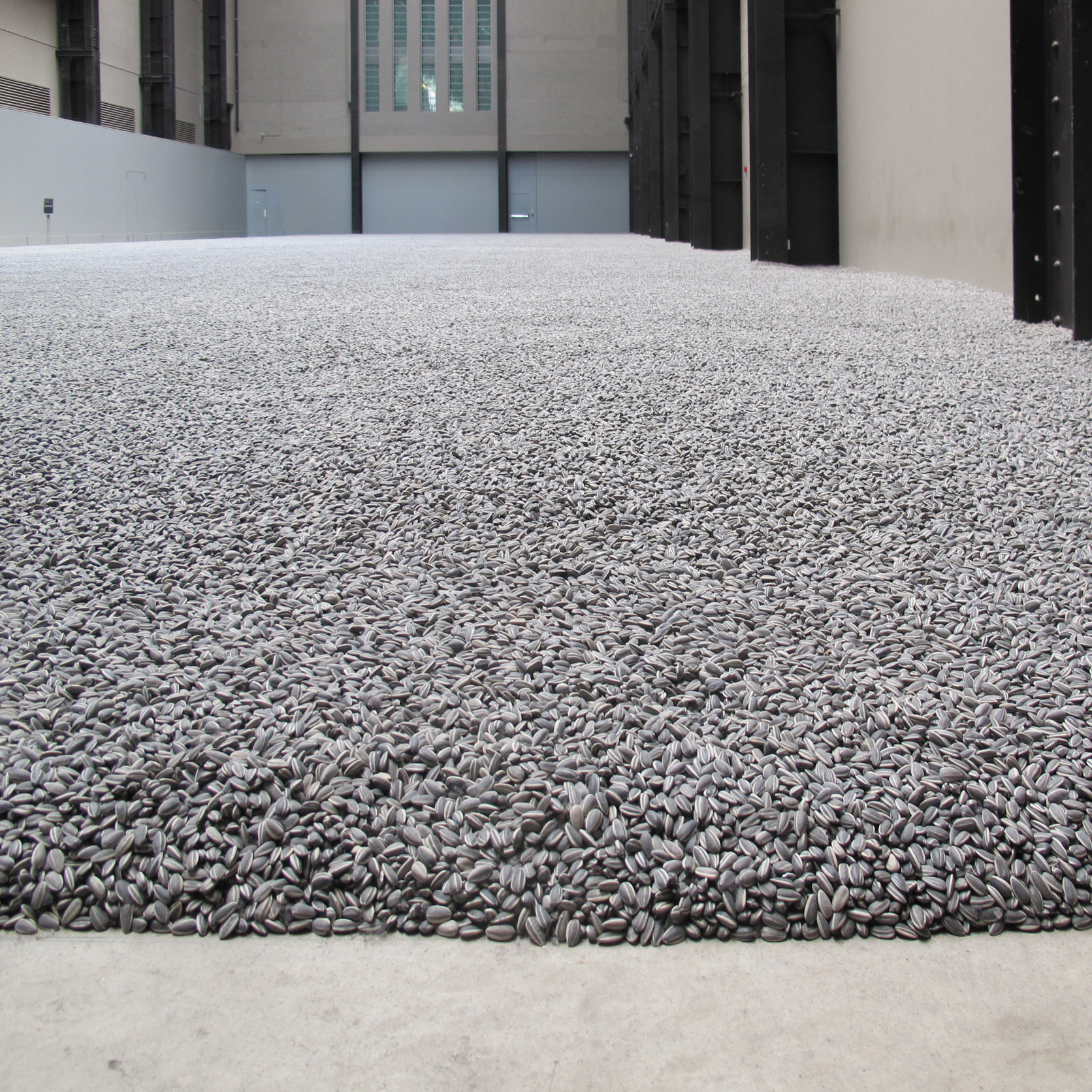 "Sunflower seeds", 2011. Installation's view at the Tate Modern (Turbine Hall). Millions of small handcrafted porcelains.